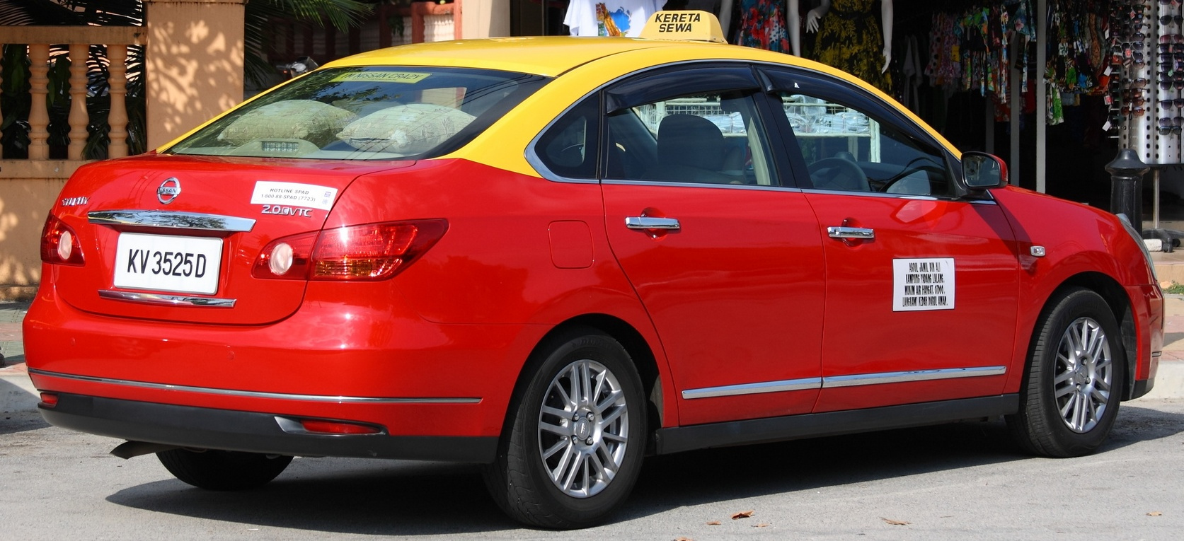 Taxi in Langkawi, Kedah, Malaysia